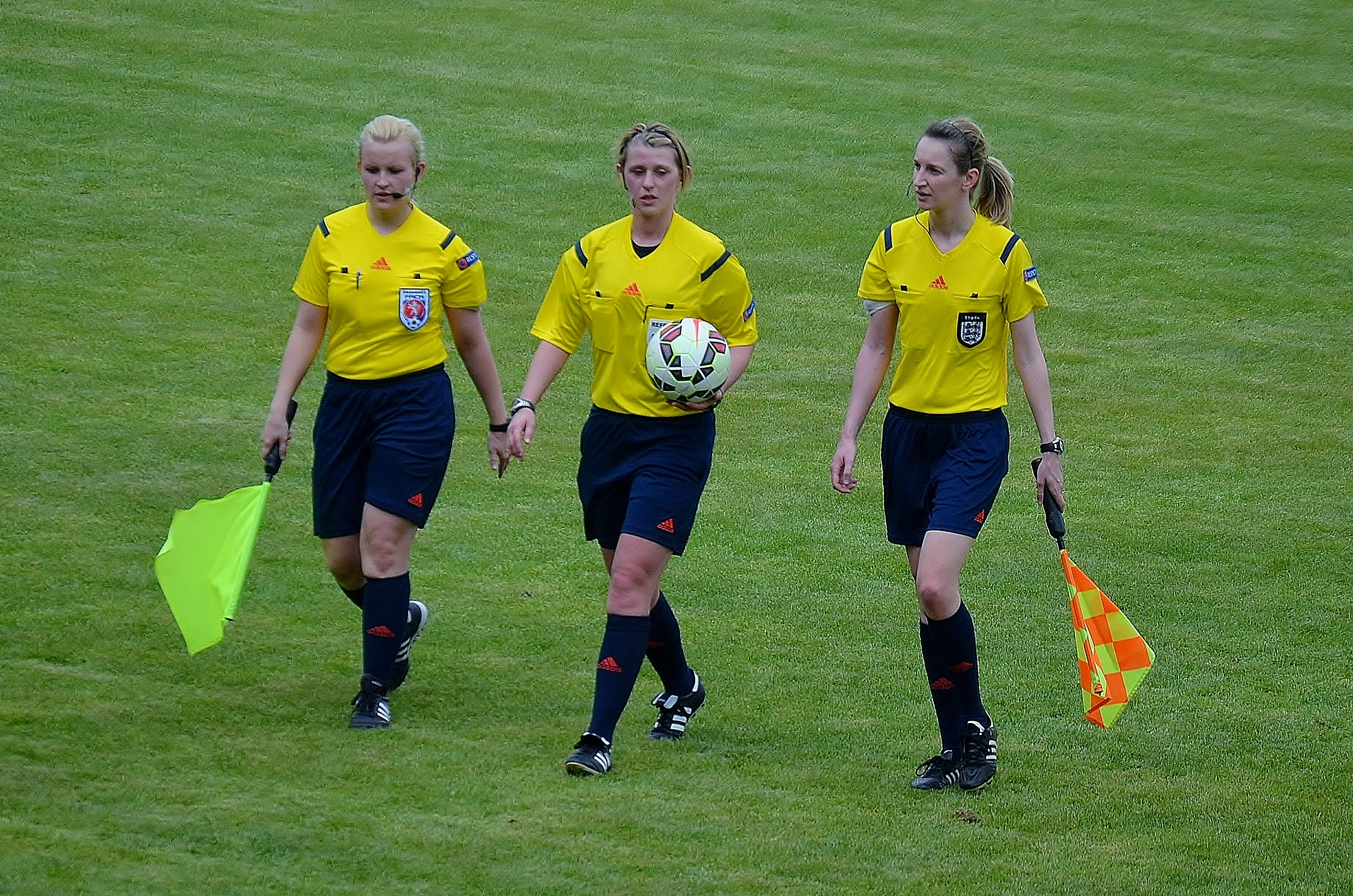 Jana Šauflová (CZE), Sarah Garratt (ENG), Helen Conley (ENG) (from left to right) at 2015 UEFA Women's Under-17 Qualification match Turkey vs Finland.